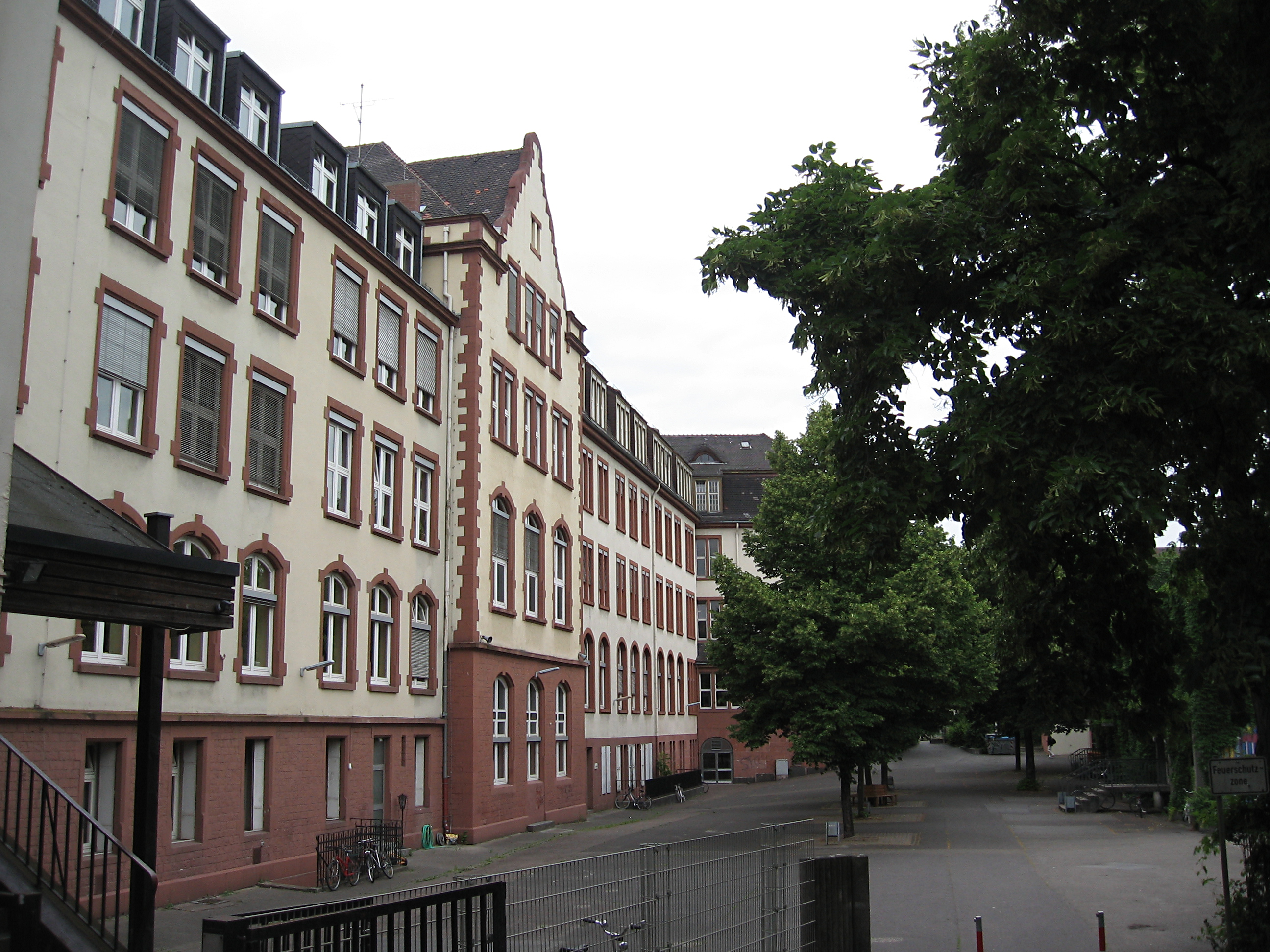 Ludwig-Frank-Gymnasium (secondary school) in Mannheim, Germany.